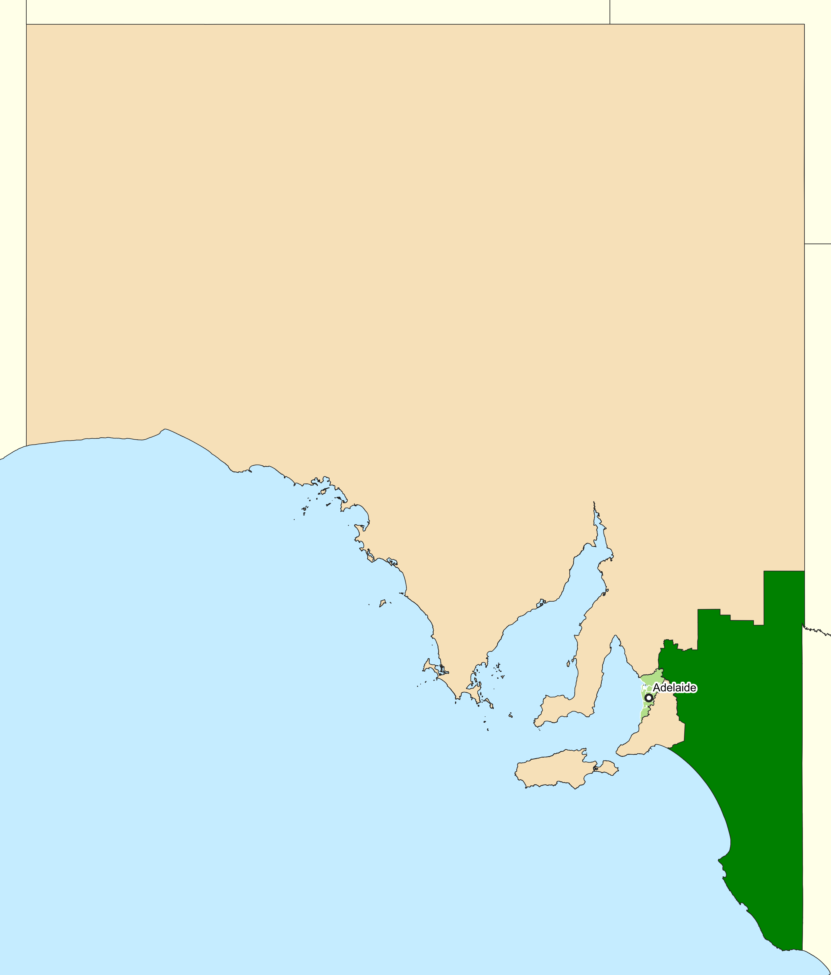 Location of the Australian federal electoral division of Barker (dark green) in South Australia as of the 2019 Australian federal election. Incorporates or developed using Administrative Boundaries ©PSMA Australia Limited licensed by the Commonwealth of Australia under Creative Commons Attribution 4.0 International licence (CC BY 4.0).